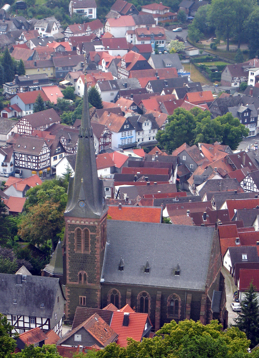 The City-Curch of Biedenkopf